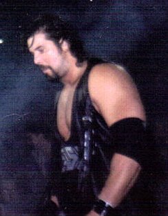 Diesel (Kevin Nash) at a WWF event in 1994